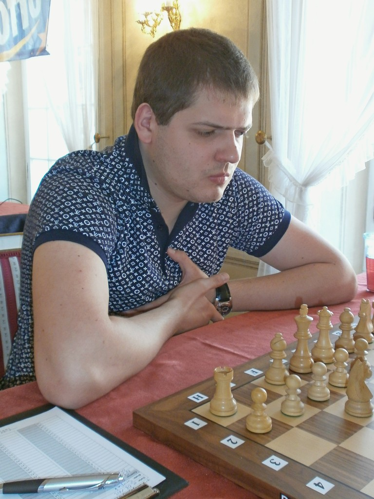 GM Kirill Stupak playing in the 5th International GM Tournament "The Lublin Union Memorial" in Lublin (Poland)